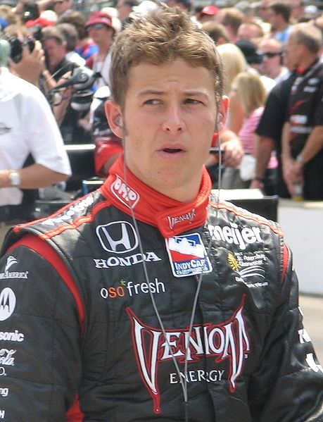 Marco Andretti at the Indianapolis Motor Speedway for Miller Lite Carb Day for the 2009 Indianapolis 500.